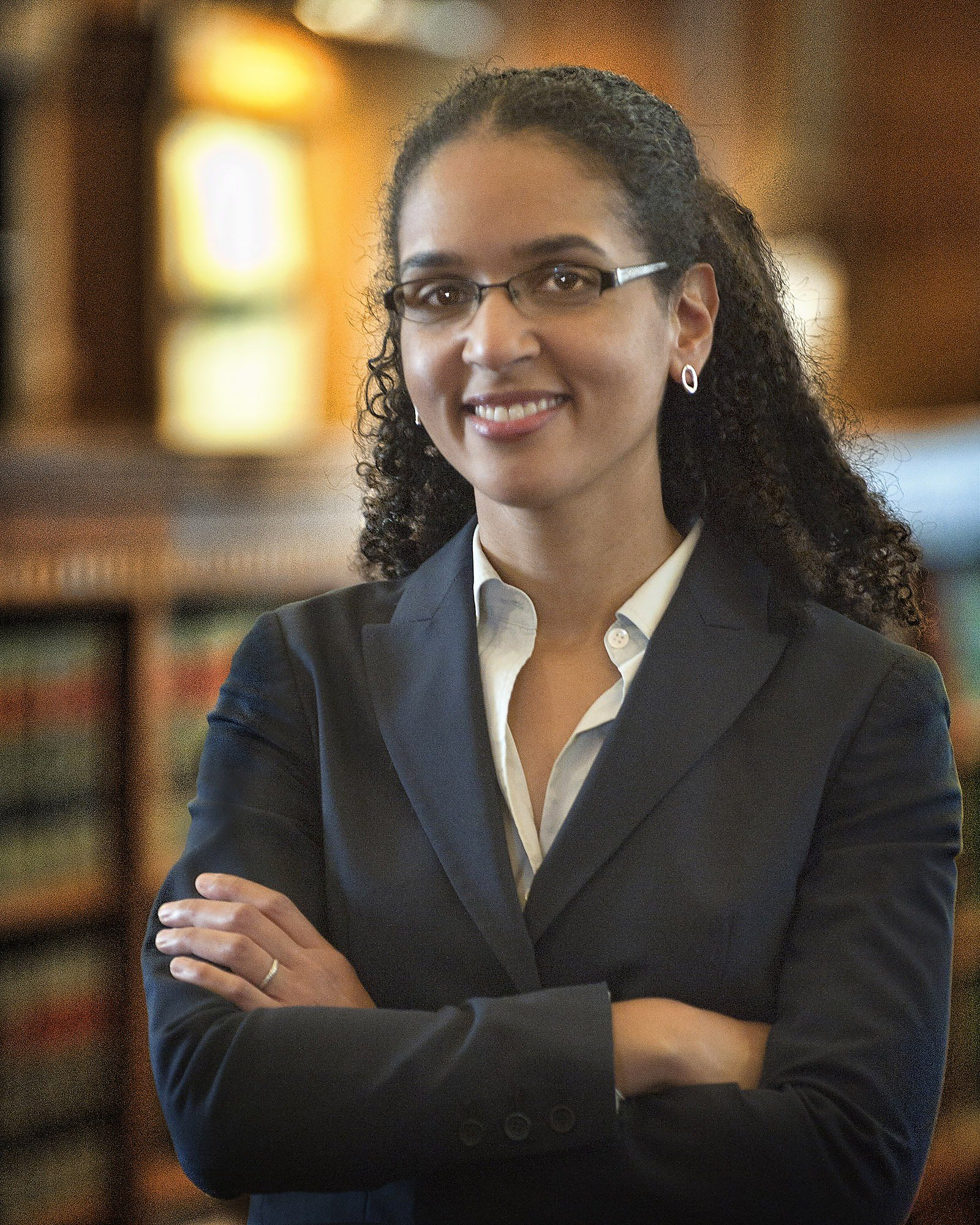 Leondra Kruger, 2014 appointee to California Supreme Court and deputy assistant attorney general at the United States Department of Justice's Office of Legal Counsel.